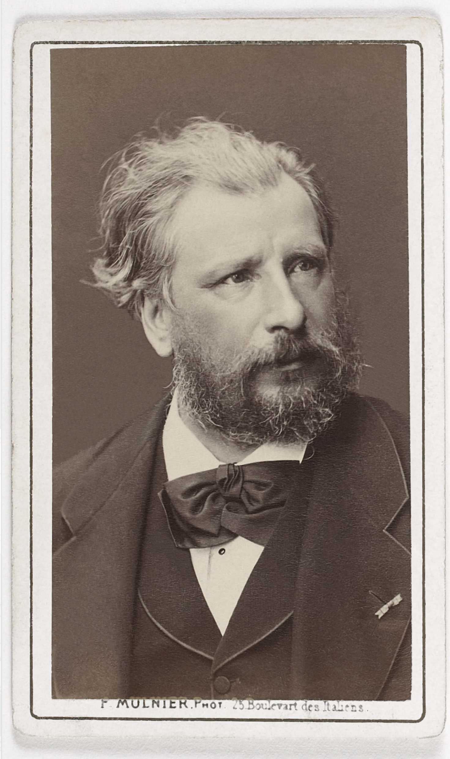 William-Adolphe Bouguereau (1825-1905), academic french painter